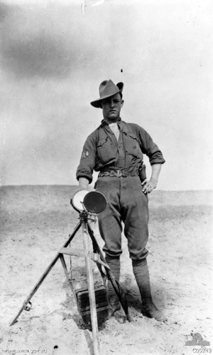 AWM caption : "Egypt. Portrait of an unidentified signaller with a heliograph mounted on a tripod. Underneath the tripod is the leather carrying case for the instrument. Note the belt that the signaller is wearing, which is decorated with badges collected from other servicemen".